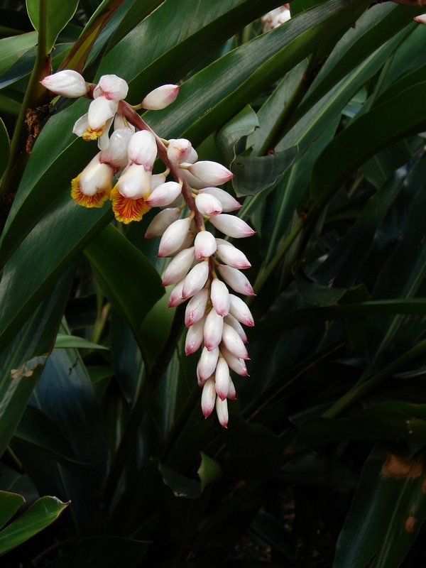 Alpinia zerumbet - Shell ginger, Pink porcelain lily Decorative garden perennial. The plant has globose red fruit. Native of South-east Asia. Alpinias grow from thick fleshy roots called "rhizomes", similar in appearance to the "ginger root" found in grocery stores. But it is Alpinia galanga roots (I think) used in cooking, as Ginger spice (??????), not this one.